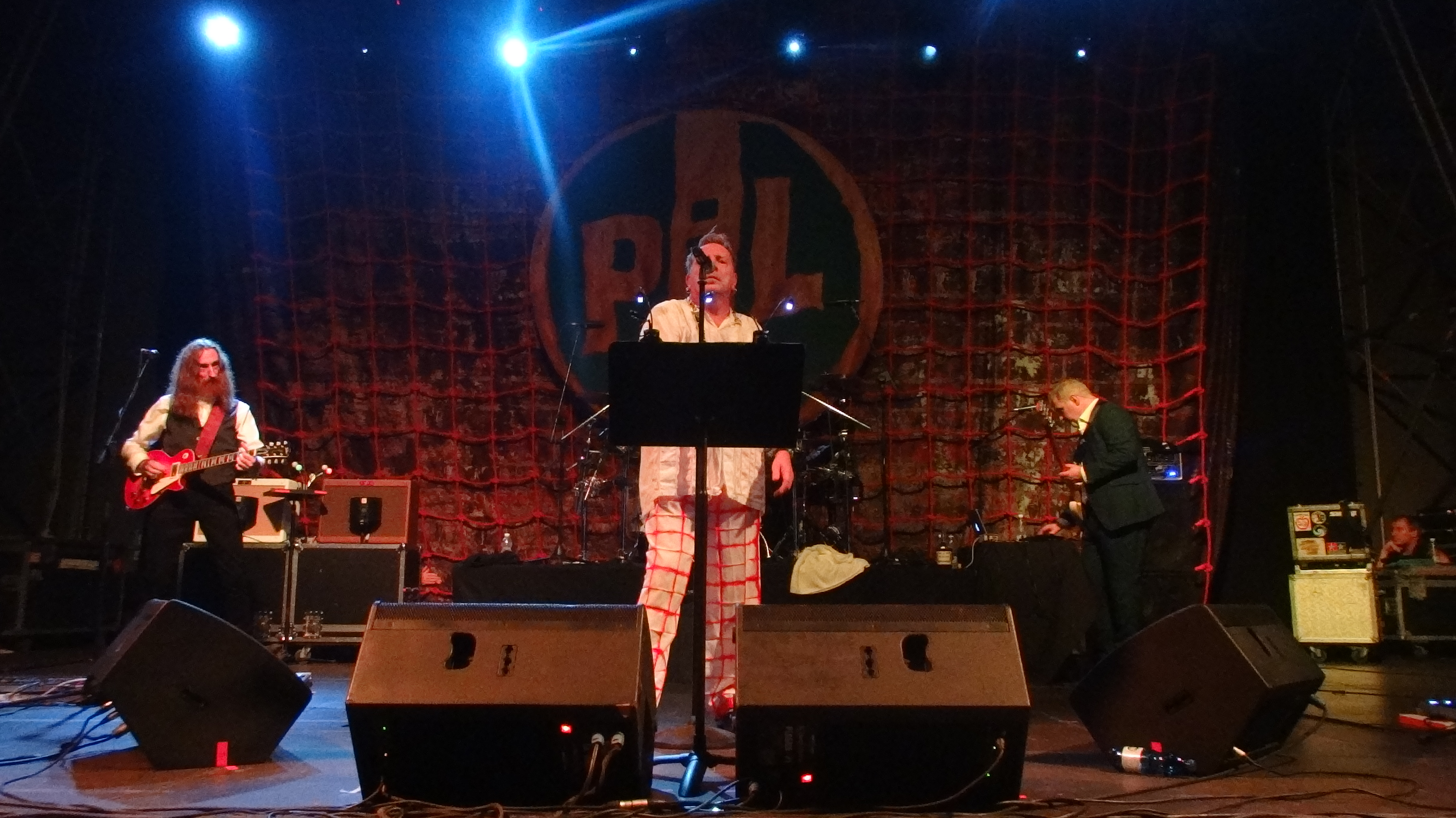 Public Image Ltd. live 27 10 2013